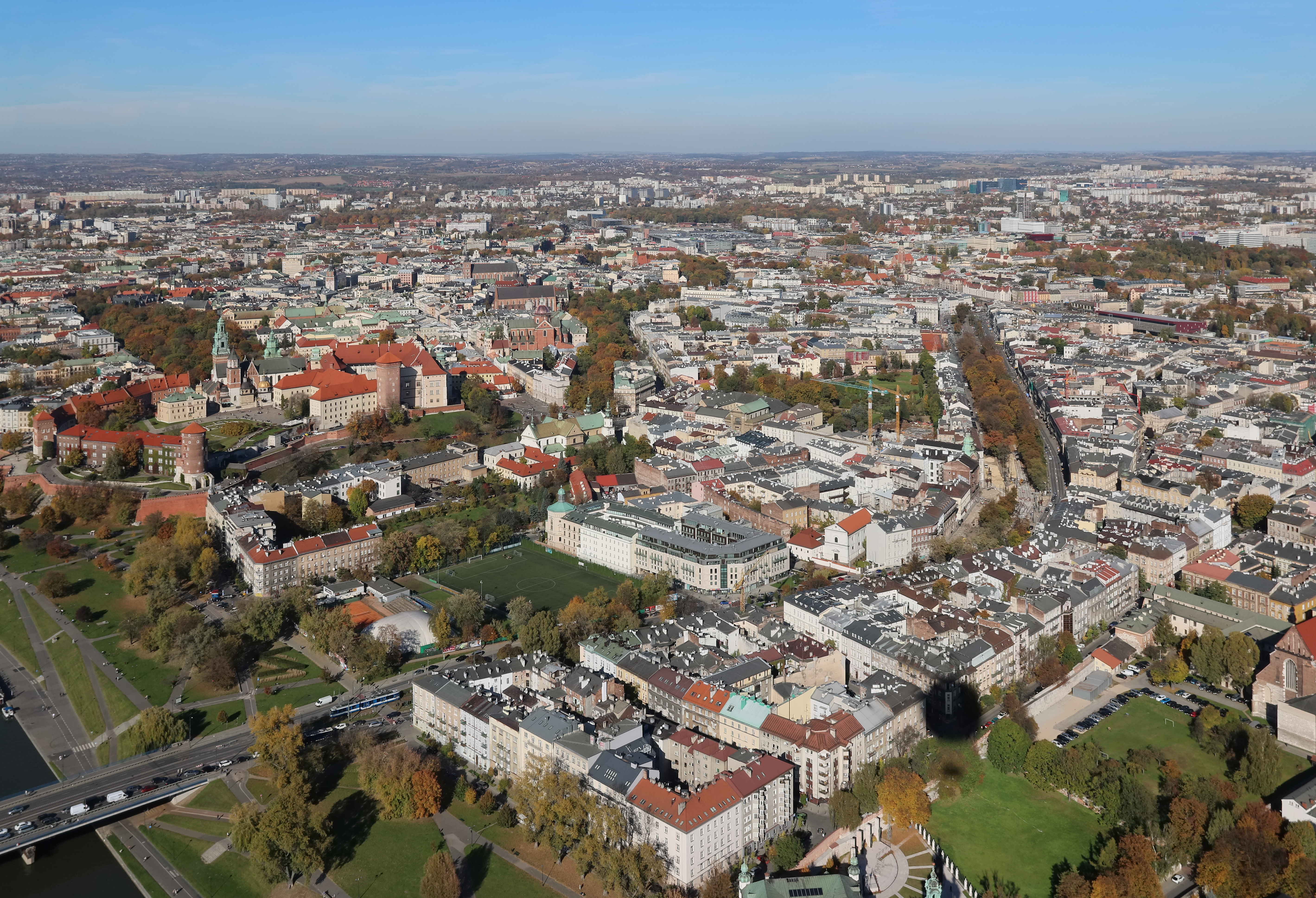 Krakow - Wawel, Old Town from captive balloon